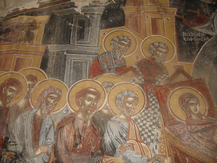 Livadero Mokro St Athanasius Church Fresco